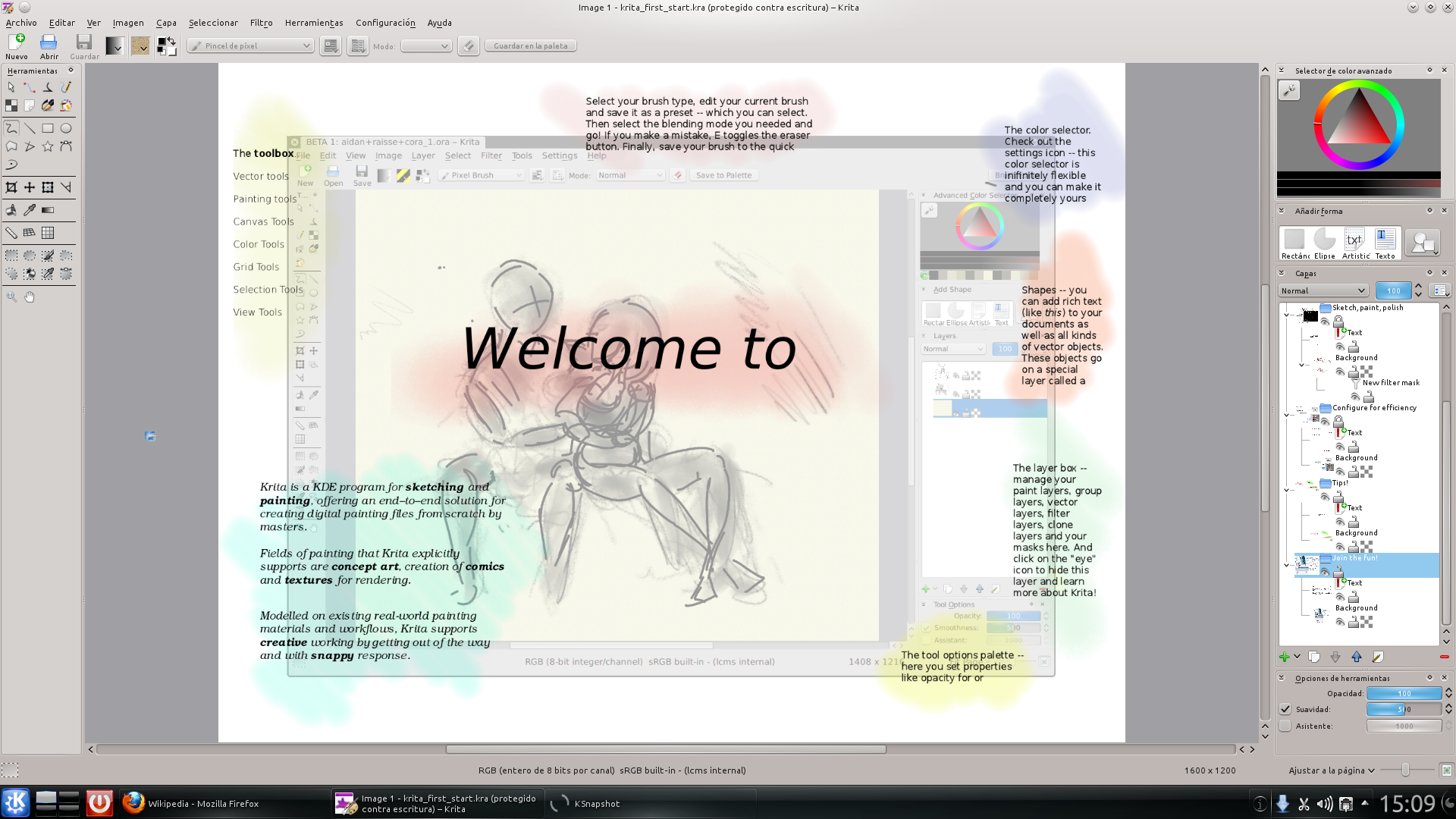 krita first start 2.3)